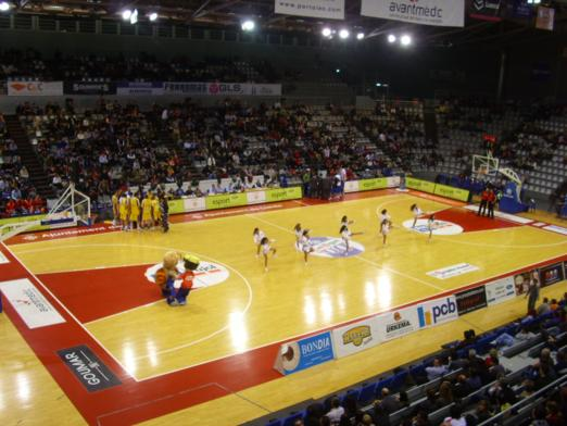 Pavelló Barris Nord of Lleida in 2009, in a game between Lleida Bàsquet and CB Valladolid.